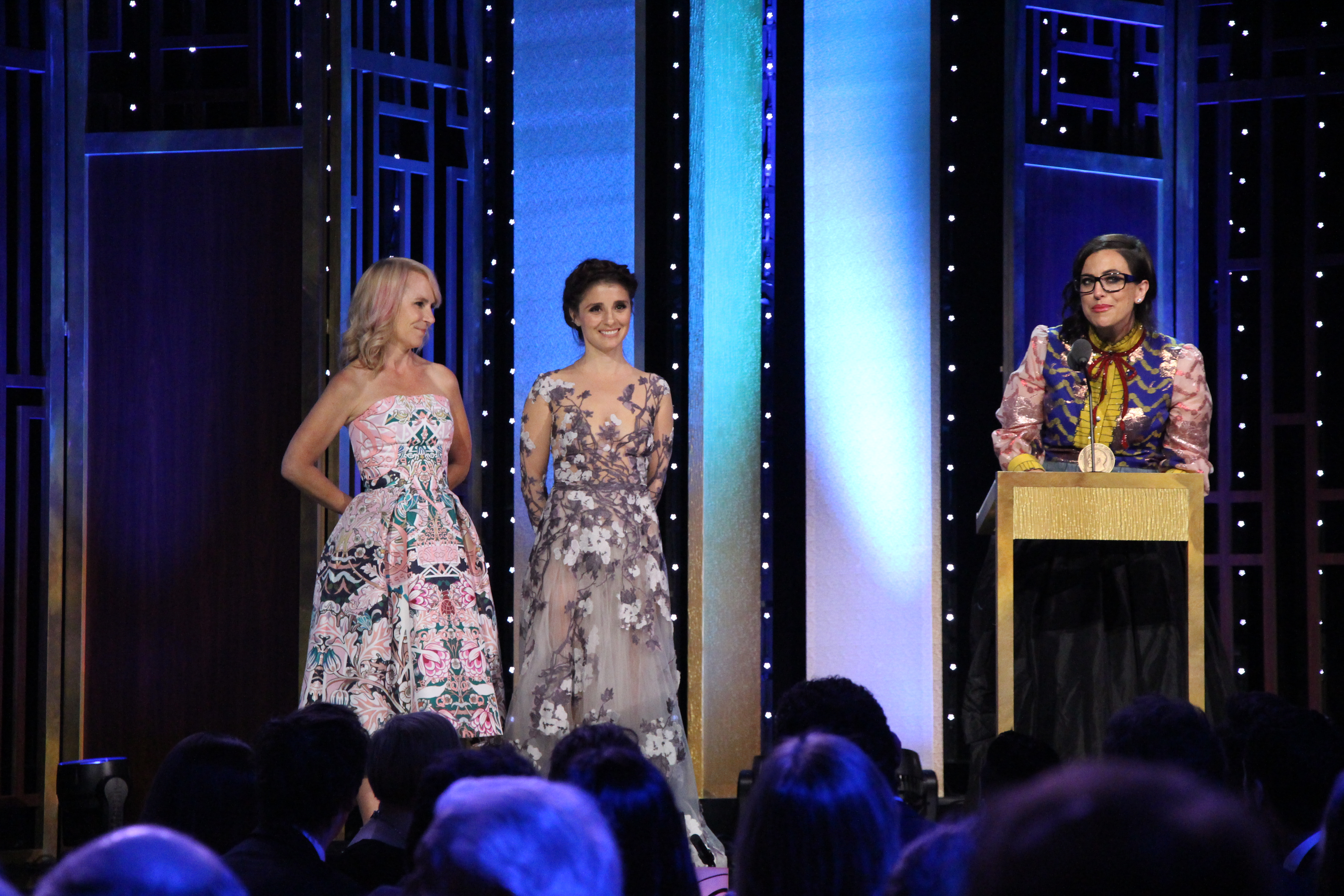 This photo includes Co-Creator/ Executive Producer Mari Noxon, Actor Shiri Appleby and Co-Creator Sarah Gertrude Shapiro from Lifetime's "UnREAL." (Photo/Sarah E. Freeman/Grady College, in New York City, Georgia, on Saturday, May 21, 2016)